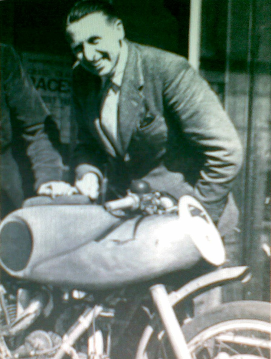 Bob Foster, a British former Grand Prix motorcycle road racer.